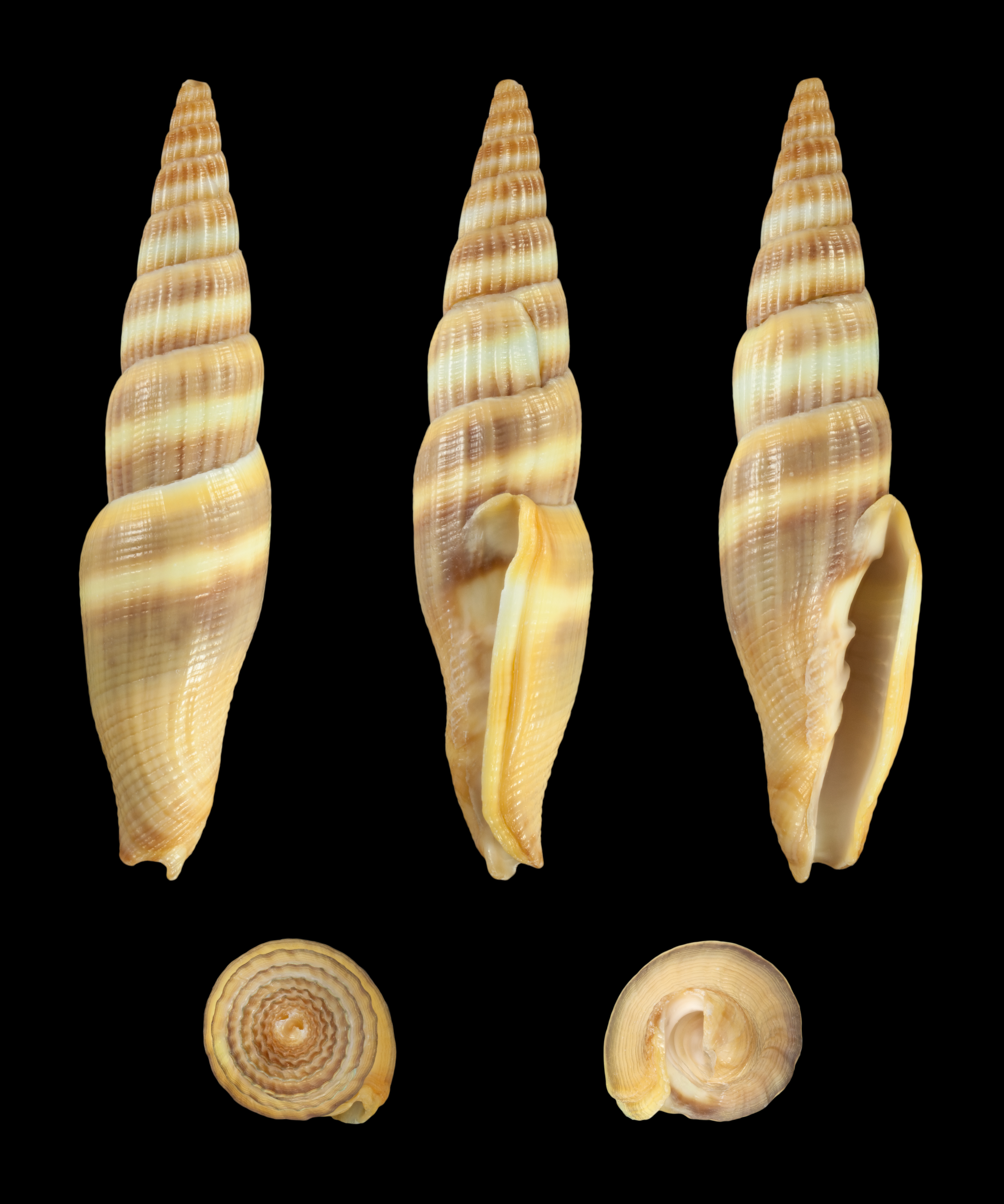 Vexillum coccineum (Reeve, 1844), Scarlet Mitre; length 7.2 cm; Originating from the Philippines; Shell of own collection, therefore not geocoded.